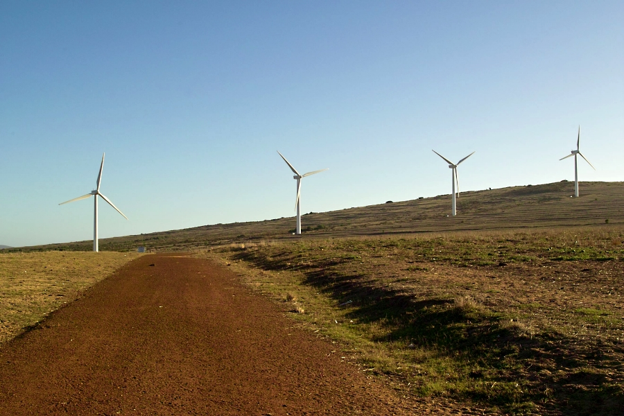 Wind turbines at Darling wind farm near Yzerfontein, Western Cape, South Africa